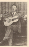 Old-time singer, harp and harmonica player Gwen Foster.